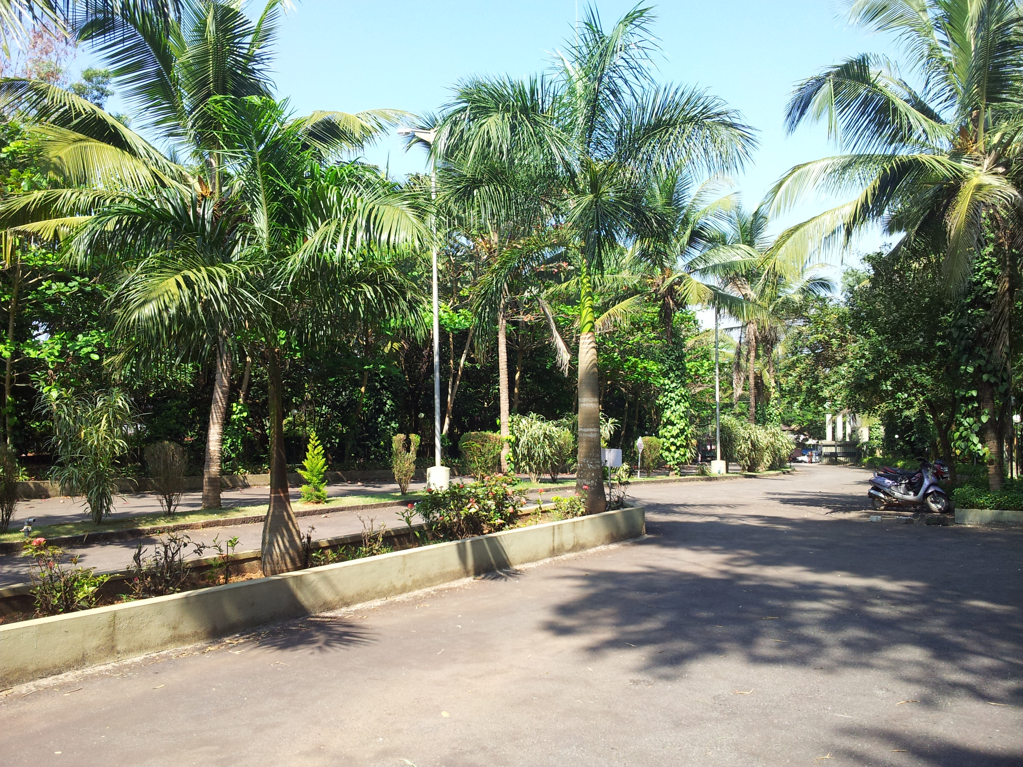 The Path. Main entrance to the college